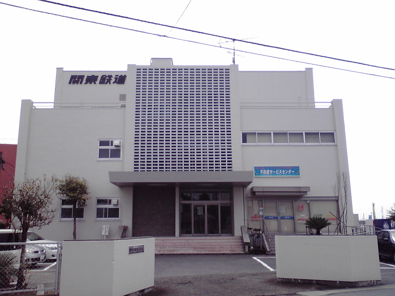 This is the head office building of Kanto Railway, Japan.